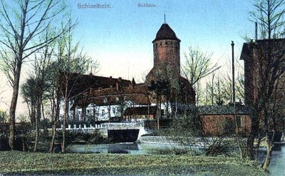 Świdwin - Castle about 1890